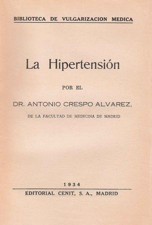 Cover book of "Hypertension". Antonio Crespo Álvarez; 1934.